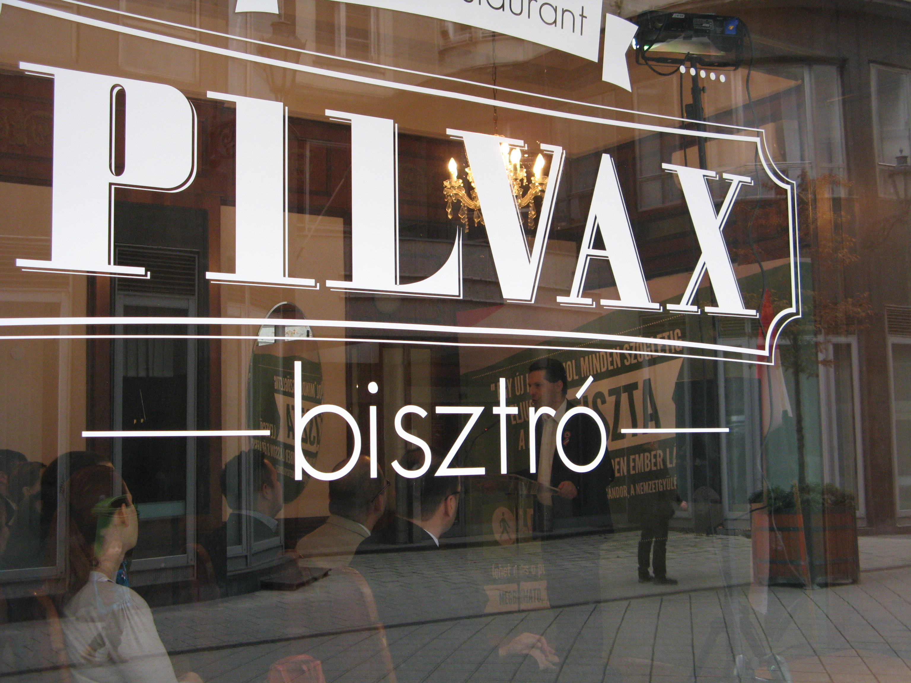 András Schiffer, co-leader of the Politics Can Be Different party, speaking at Pilvax Café, the place where the Hungarian Revolution of 1848 was sparked, on the anniversary in 2015.